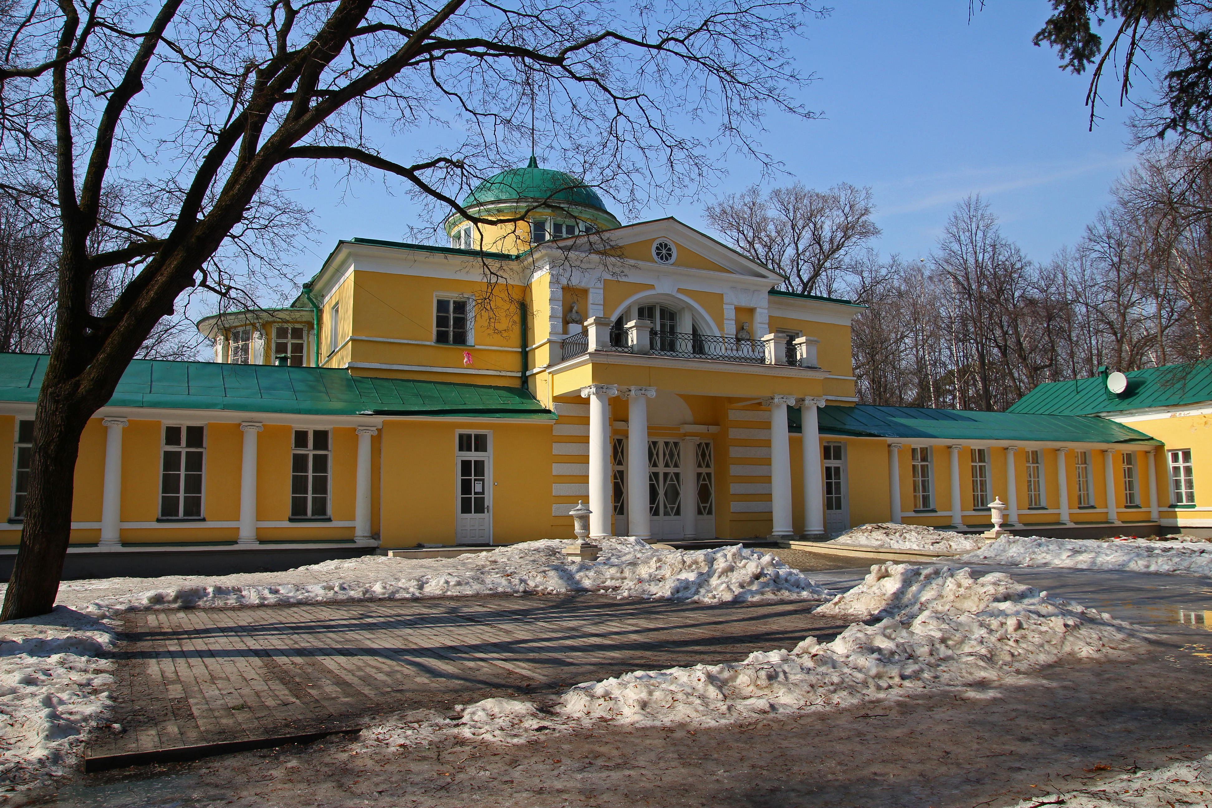 The former Bratzevo Estate in Tushino, Moscow.